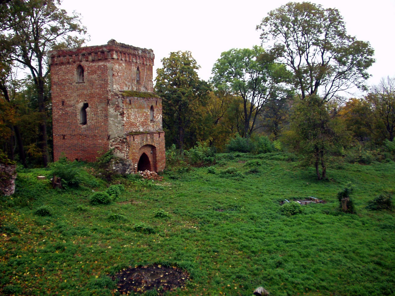 Abandoned Teutonic castle tower in Kurortnoe (Gross-Wonsdorf) in Kaliningrad oblast